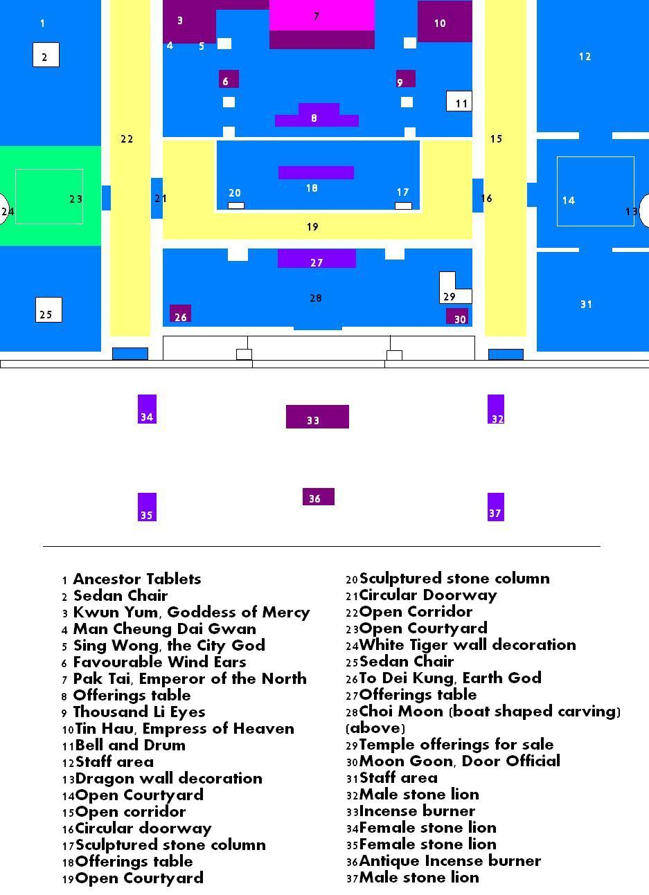 The floor plan of Yuk Hui Temple, Cheung Chau.